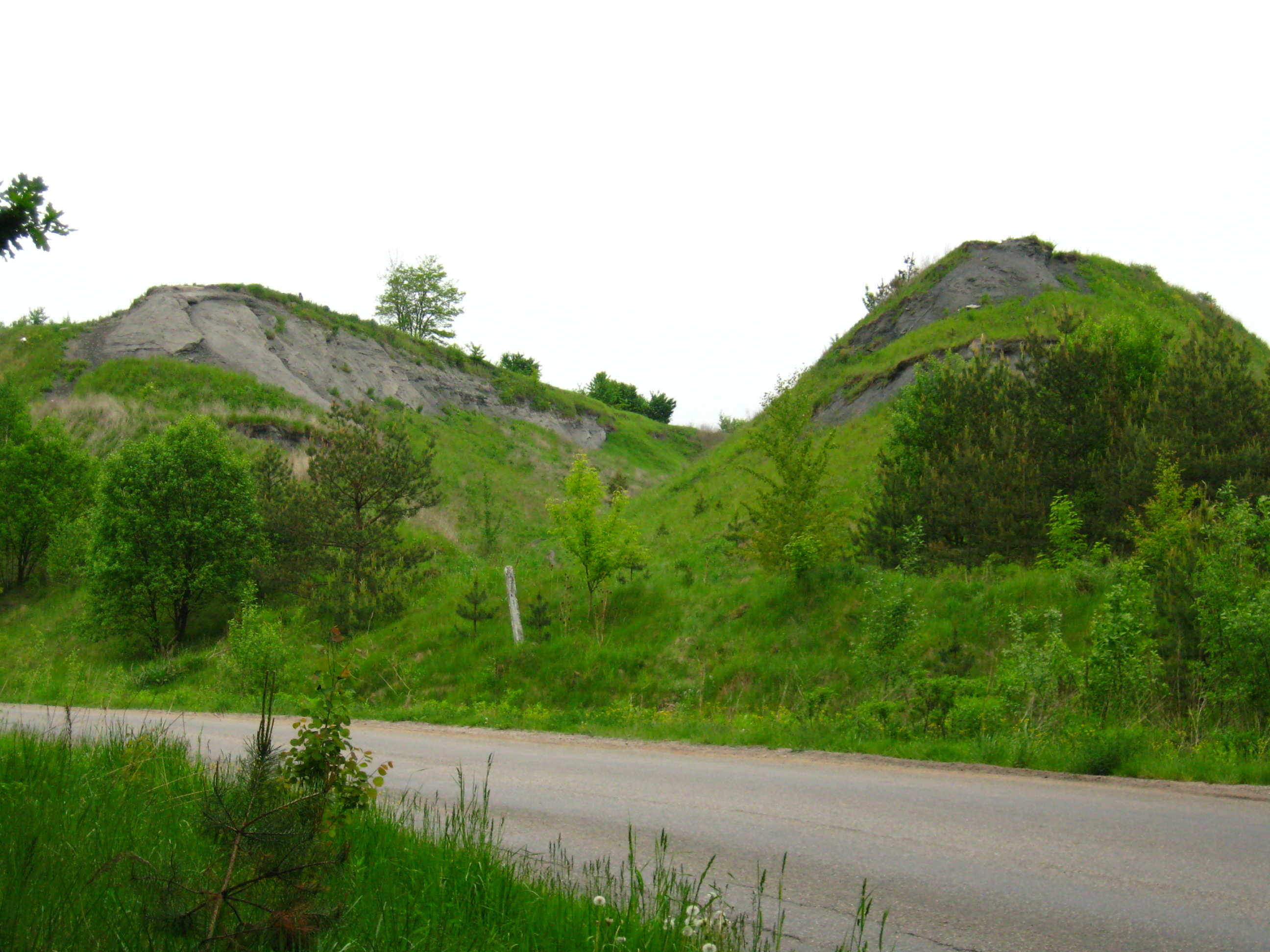 Heaps of ash at Sowlany from cogeneration power plant at Białystok